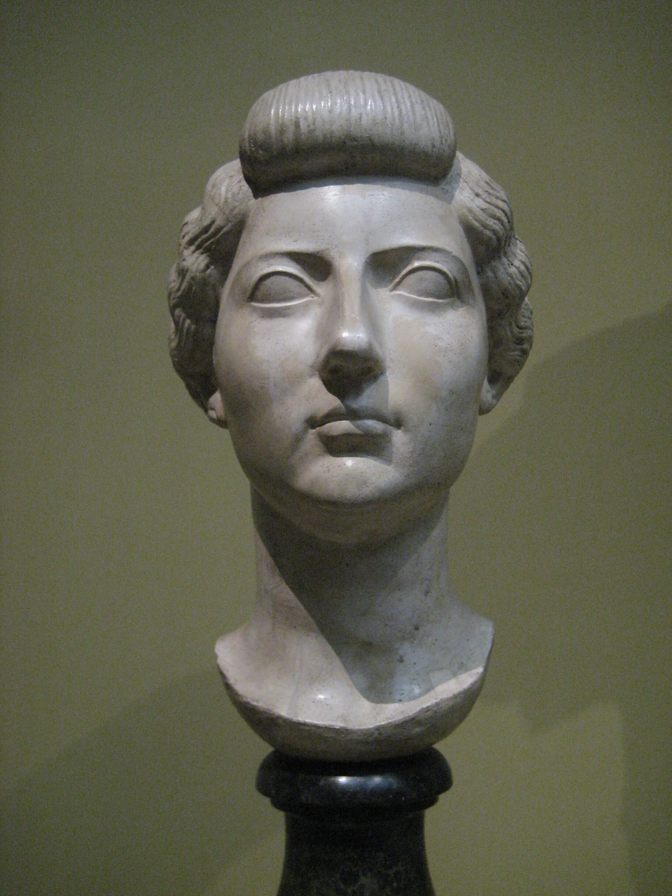 Livia Drusilla. Plaster cast in Pushkin museum after original in Louvre. (Before was attributed as Octavia Minor)